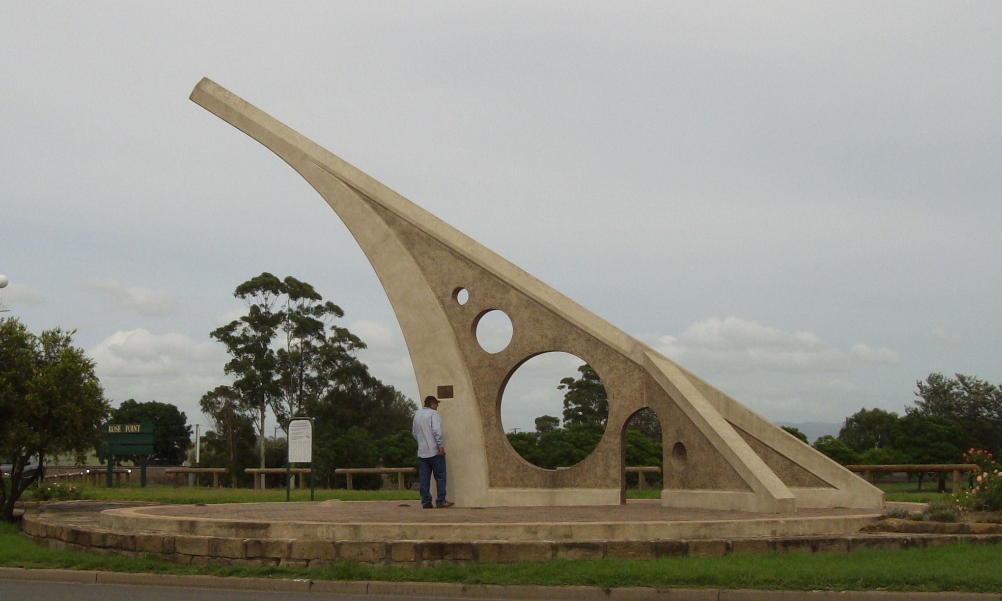 Singleton NSW sundial one of the worlds largest